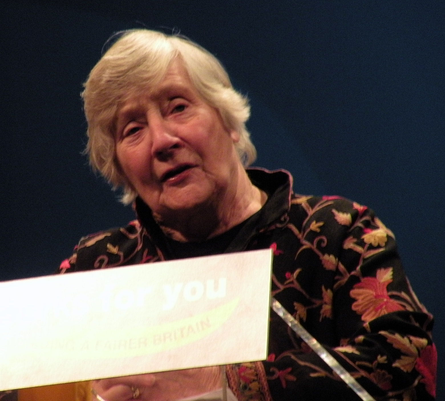 Shirley Williams, Baroness Williams of Crosby, addressing a rally at a Liberal Democrat conference in the International Convention Centre, Birmingham